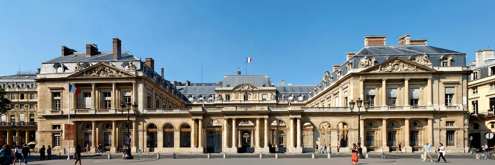 South facade of the Palais-Royal in Paris